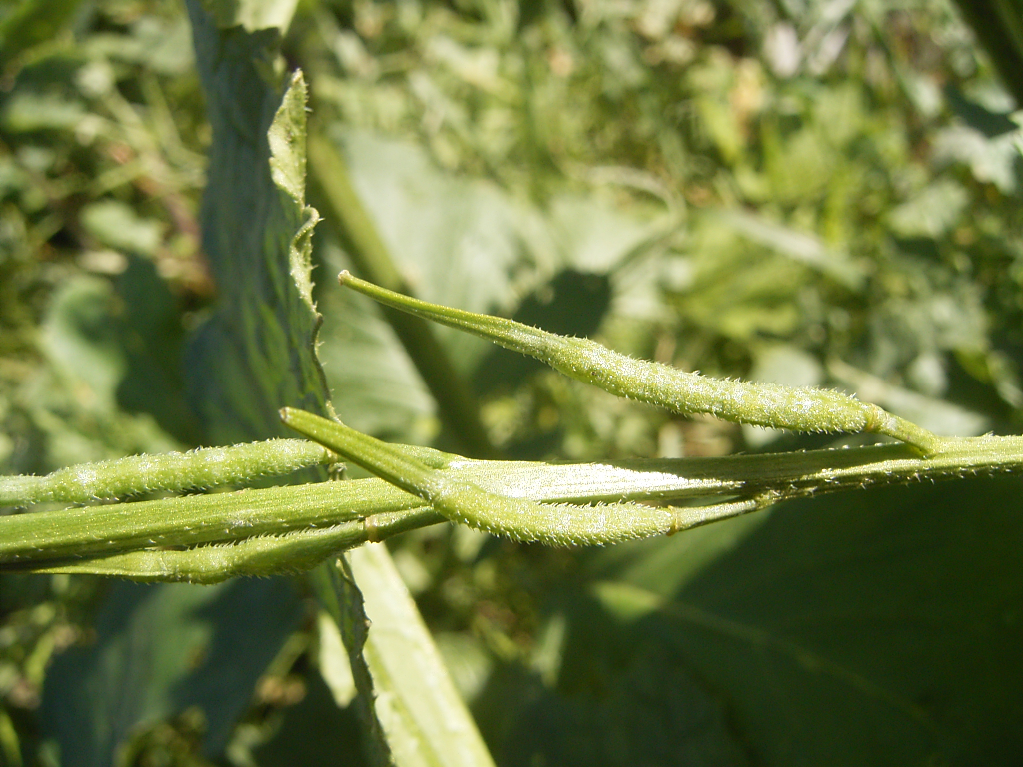 Deze foto toont de hauwtjes van Herik. Ik nam de foto langs een sloot in Mariahoeve in Den Haag. This photo shows the seedpods of sinapis arvensis. I took the photo in The Hague, Netherlands.